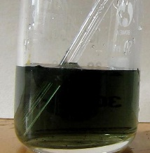 vanadium chloride solution